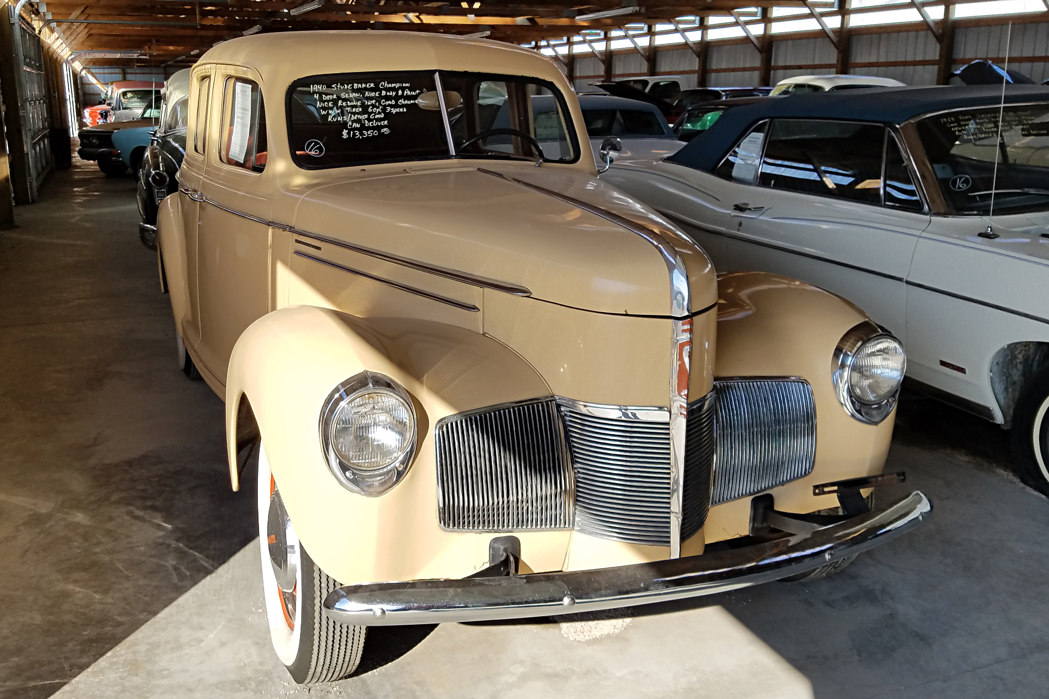 A 1940 Studebaker Champion